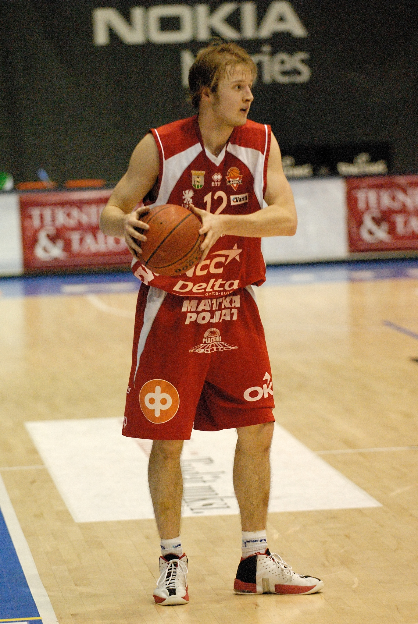 Juha Sten, player for Finnish national team and Team Lappeenranta (Lappeenrannan NMKY) playing against Honka in March 22nd 2008